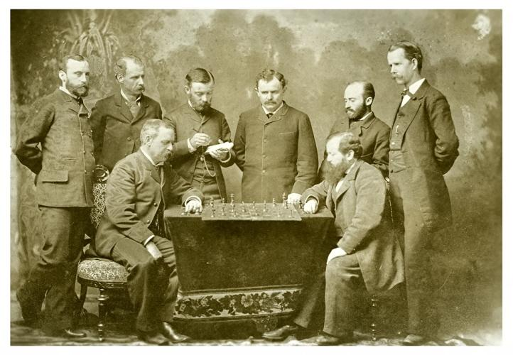 Wilhelm Steinitz (seated right) and New Orleans Chess Amateurs, photographed in New Orleans in January, 1883, by Theo. Lilienthal. Key: Leon L. Labatt -- Jas. G. Blanchard -- Jas. D. Seguin -- Charles F. Buck -- Fernand Claiborne -- Charles A. Maurien -- Wilhelm Steinitz.